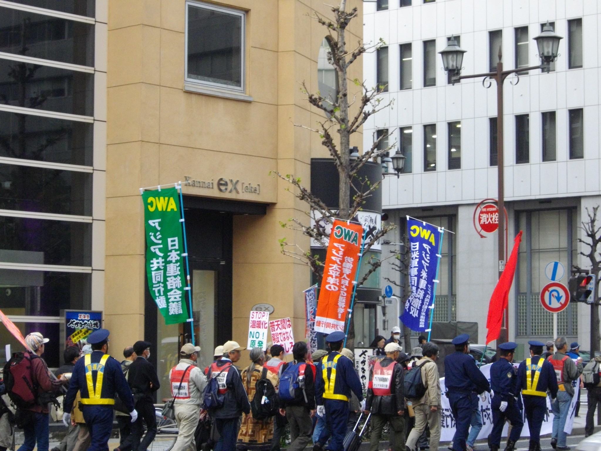 Anti-APEC rally by Japanese ultra-left organizations